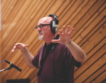 Composer/arranger Frank Macchia conducting in the studio.